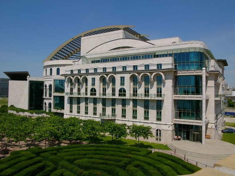 Hungarian National Theatre (hungarian Nemzeti Színház), Budapest, Hungary